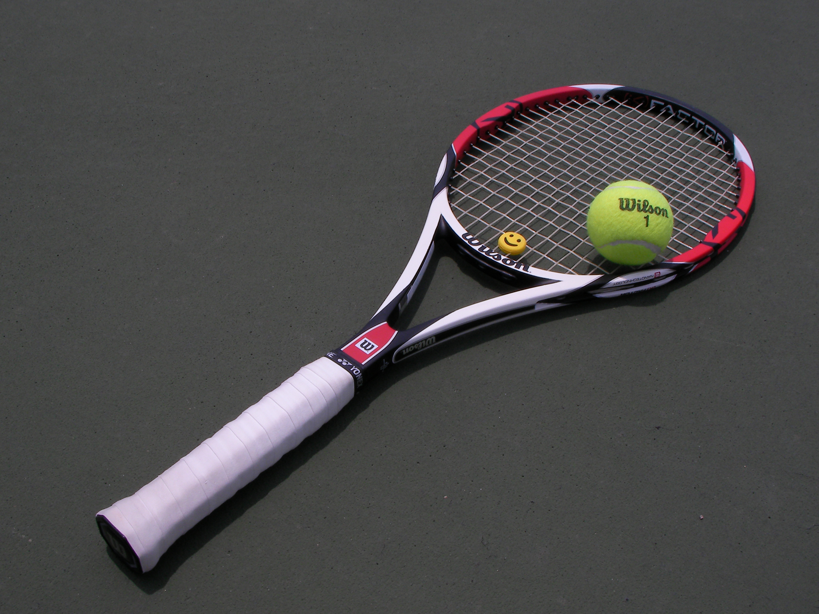 Tennis racket and ball